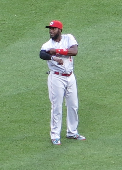 Brandon Phillips of the Cincinnati Reds, April 25, 2016.